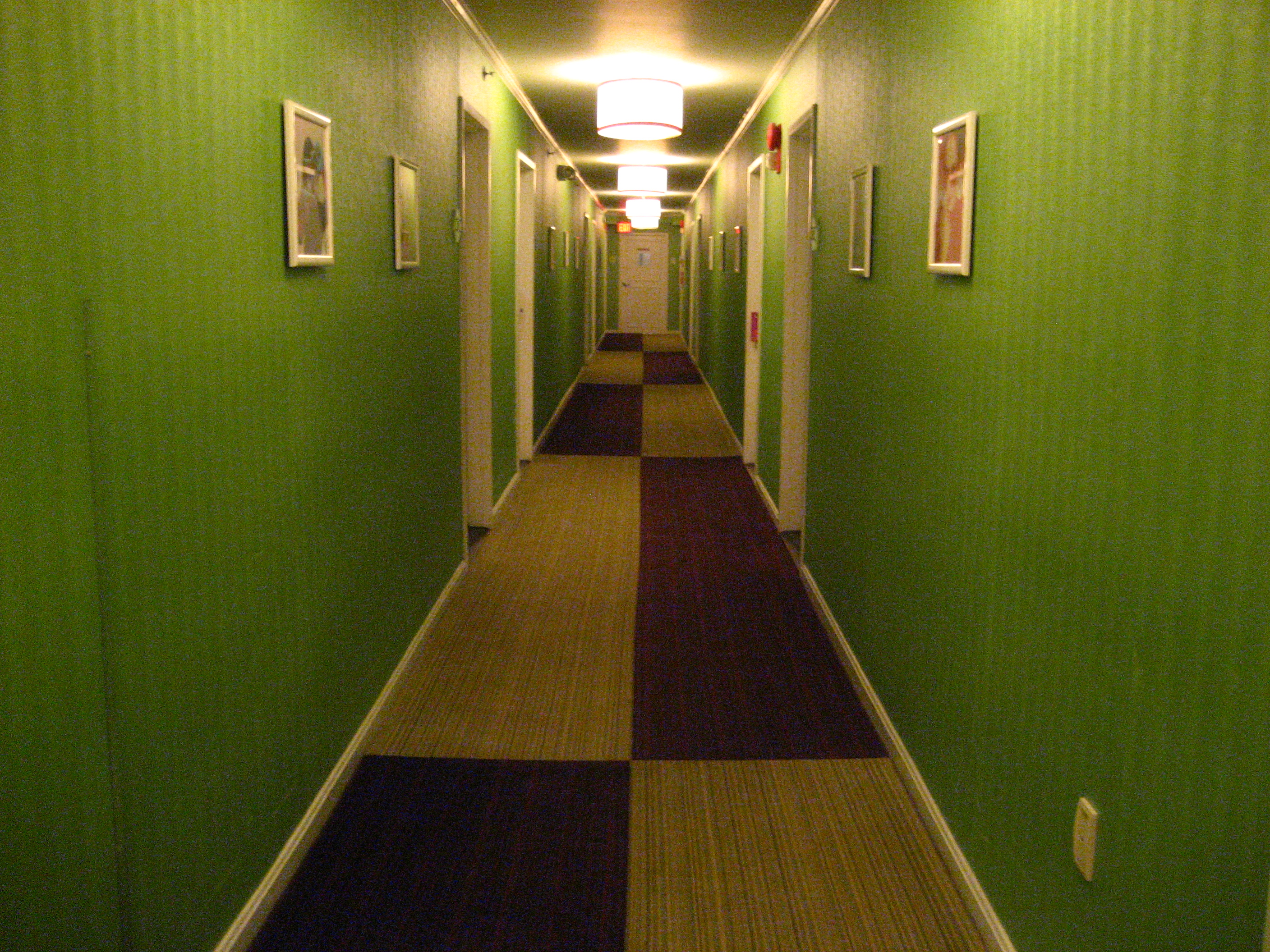 Hallway of Hotel Helix in Washington, D.C.